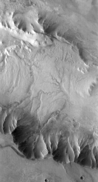 Channels in Melas Chasma, as seen by themis. Location is 9.5 S and 283 E.